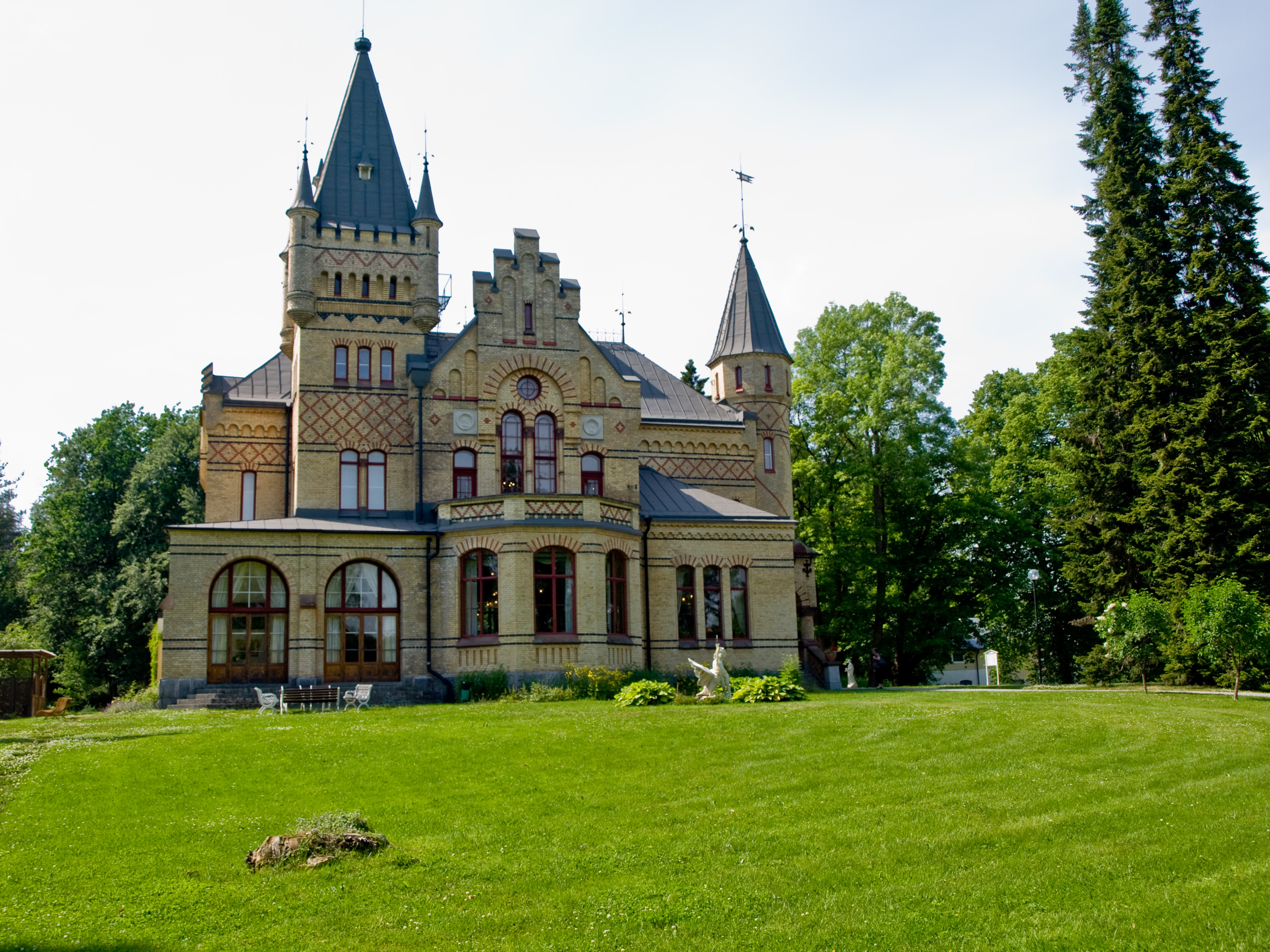 Villa Merlo/Merlo Slott in Timrå, Sweden.